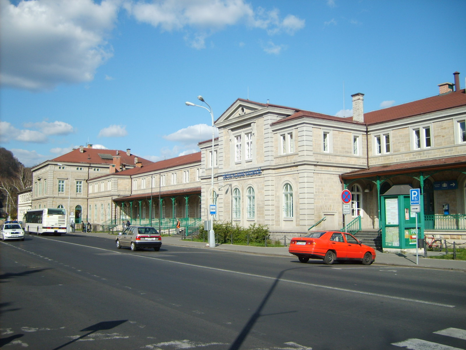 Main railway station in Děčín on Dresden–Děčín railway bult in 1851. The building once marked the division between Austrian and Saxon part of the line and originally consisted of two mirror sections, for railway staff from each respective country.